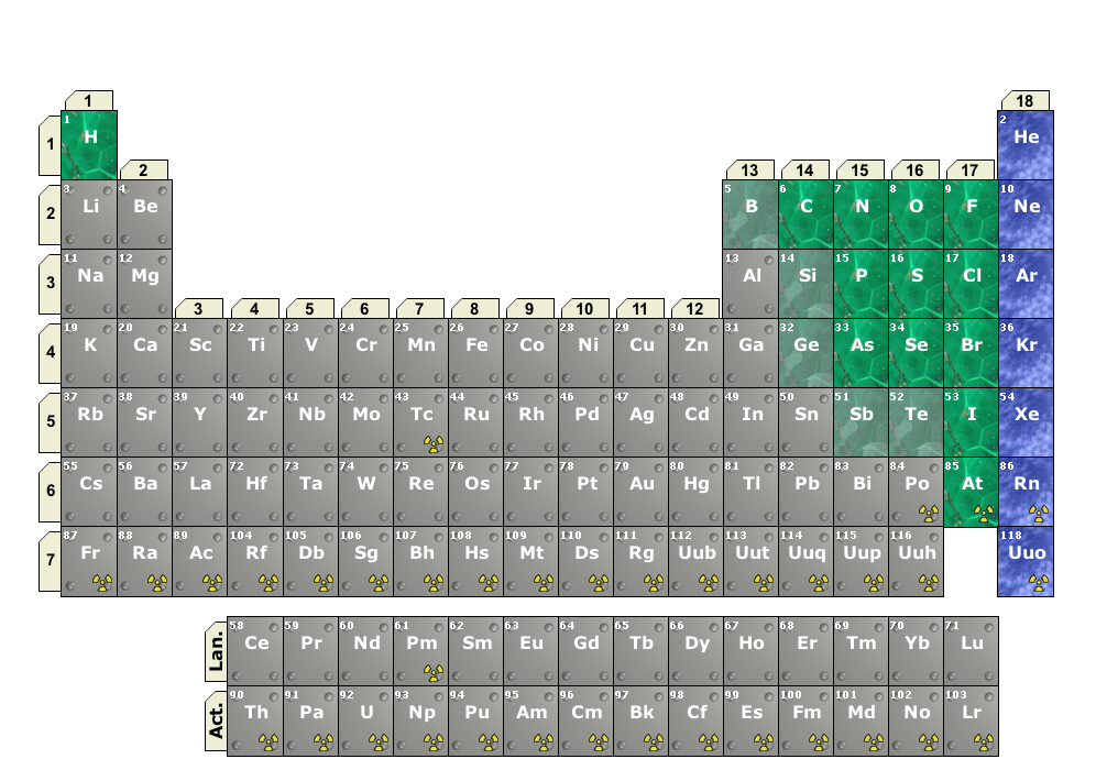 Periodic System of the Elements. Note: Lanthanum and Actinium are often placed under lanthanoids and actinoids. Grey color indicate metals. Green color indicates non-metals. Green/grey color indicate semi-metals.